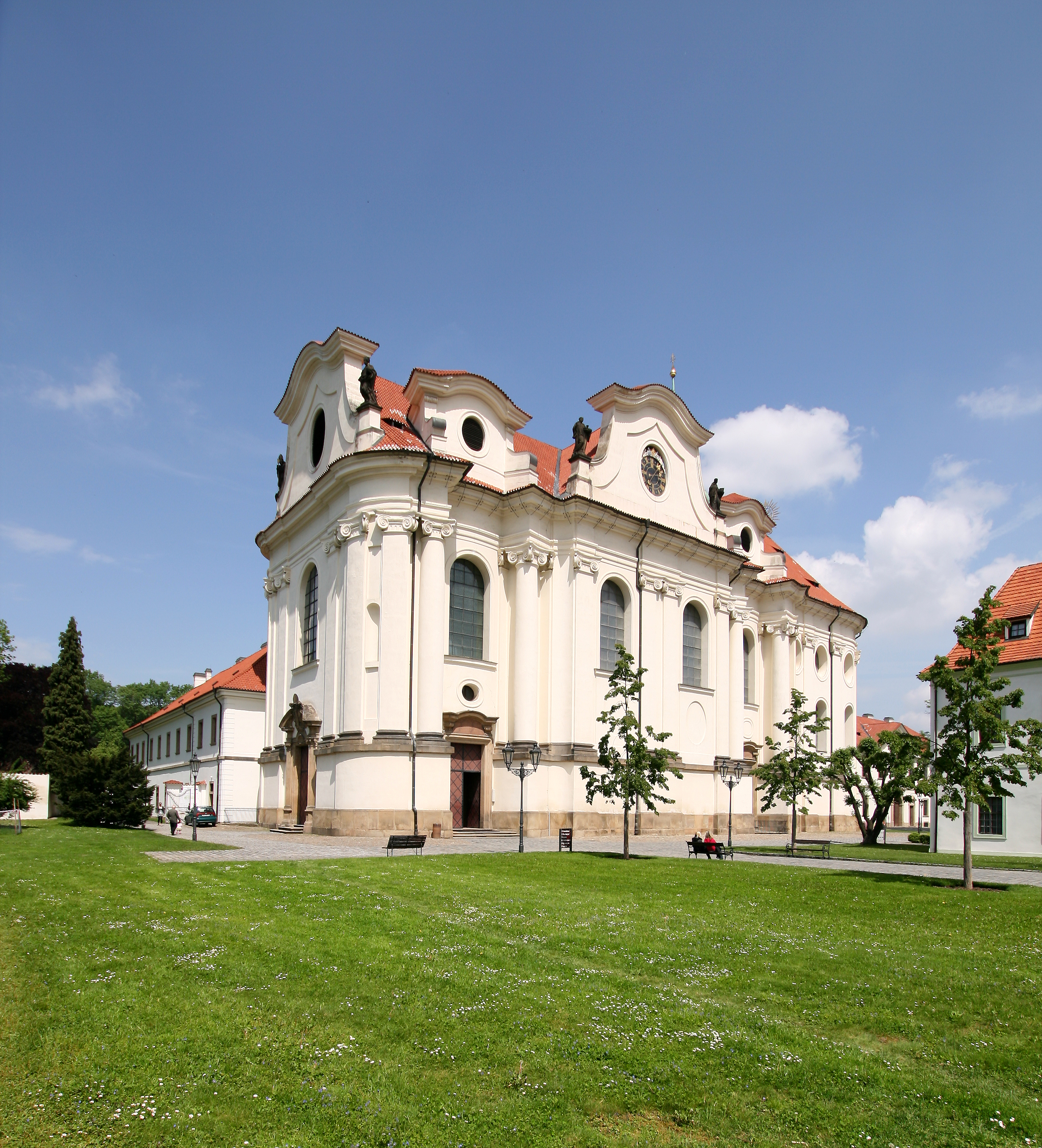 Basilica of Saint Margaret in Břevnov Archabbey in Prague